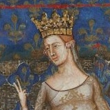 Beatrice of Provence